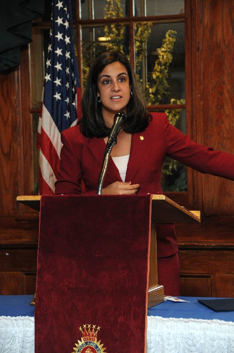 Nicole Malliotakis, Member of Assembly representing parts of Brooklyn and Staten Island.